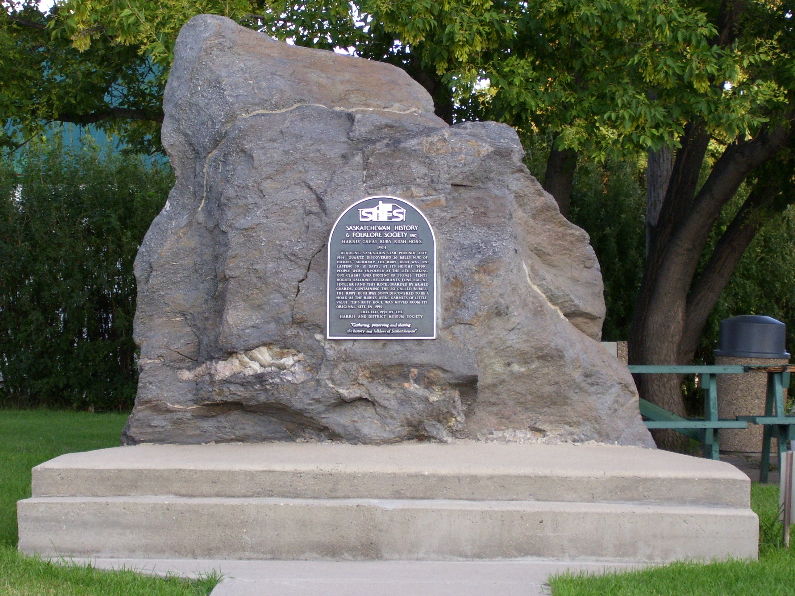 Large Historic Rock in Harris, SK, Canada